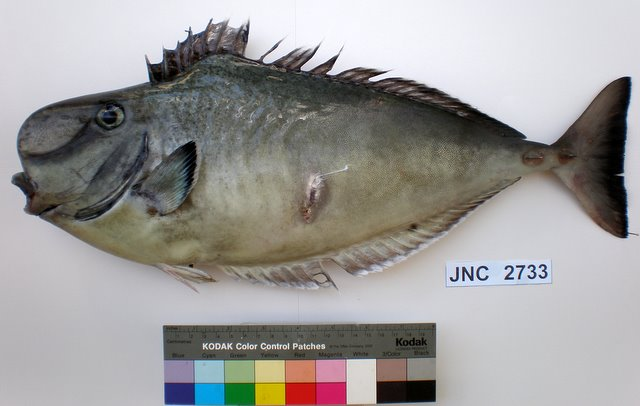 Naso tonganus. Locality: Récif de Crouy, off Nouméa, New Caledonia. Fork length 460 mm. Weight 1,700 grams. Date 2009/10/31. Photograph also uploaded in Fishbase.